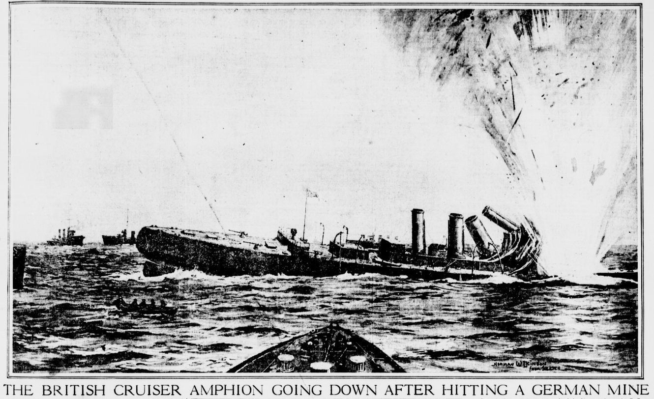 The British Cruiser HMS Amphion Going Down After Hitting a German Mine 6 August 1914 North Sea